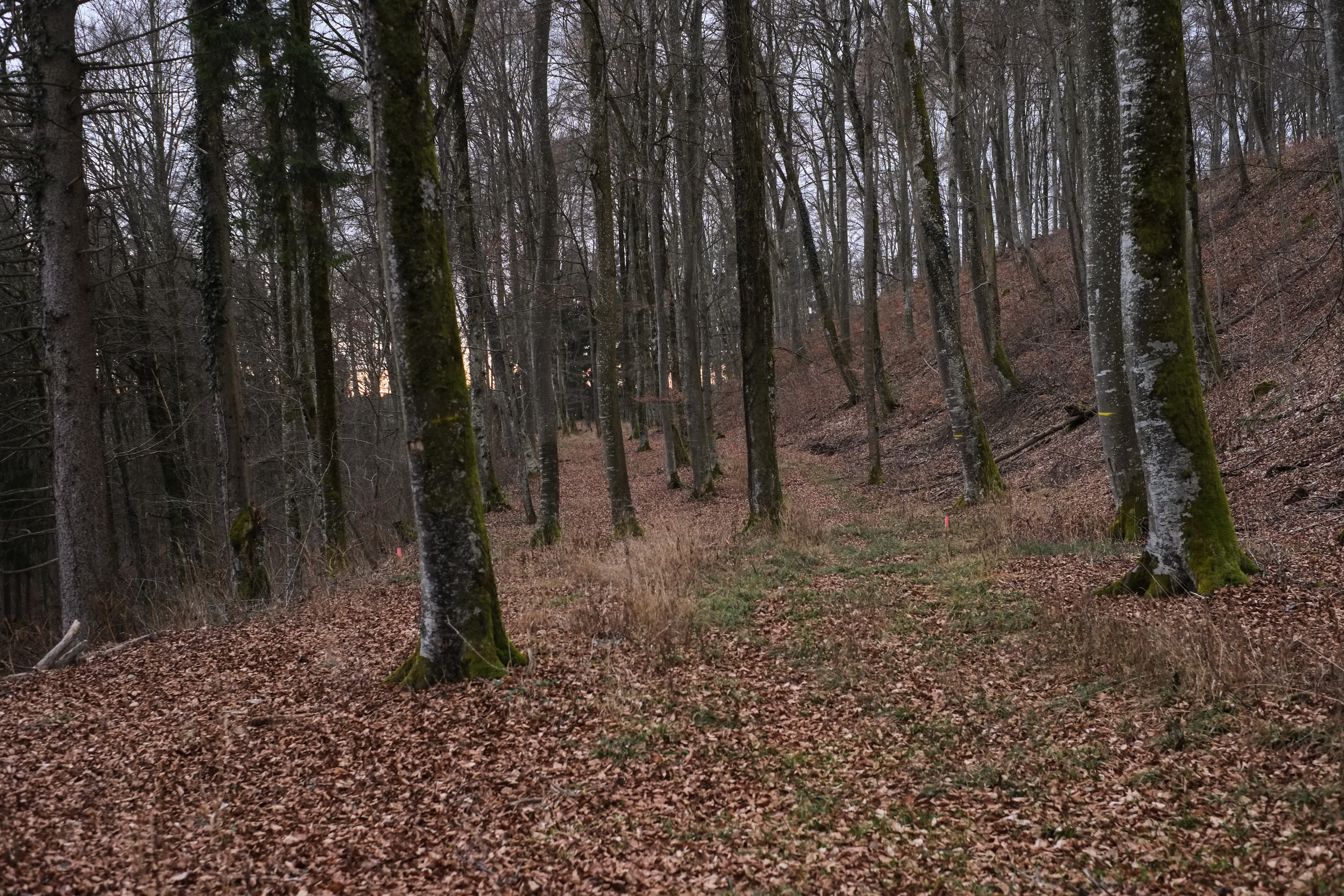 Celtic hillfort Alte Burg, Langenenslingen, district Biberach, Baden-Württemberg, Germany